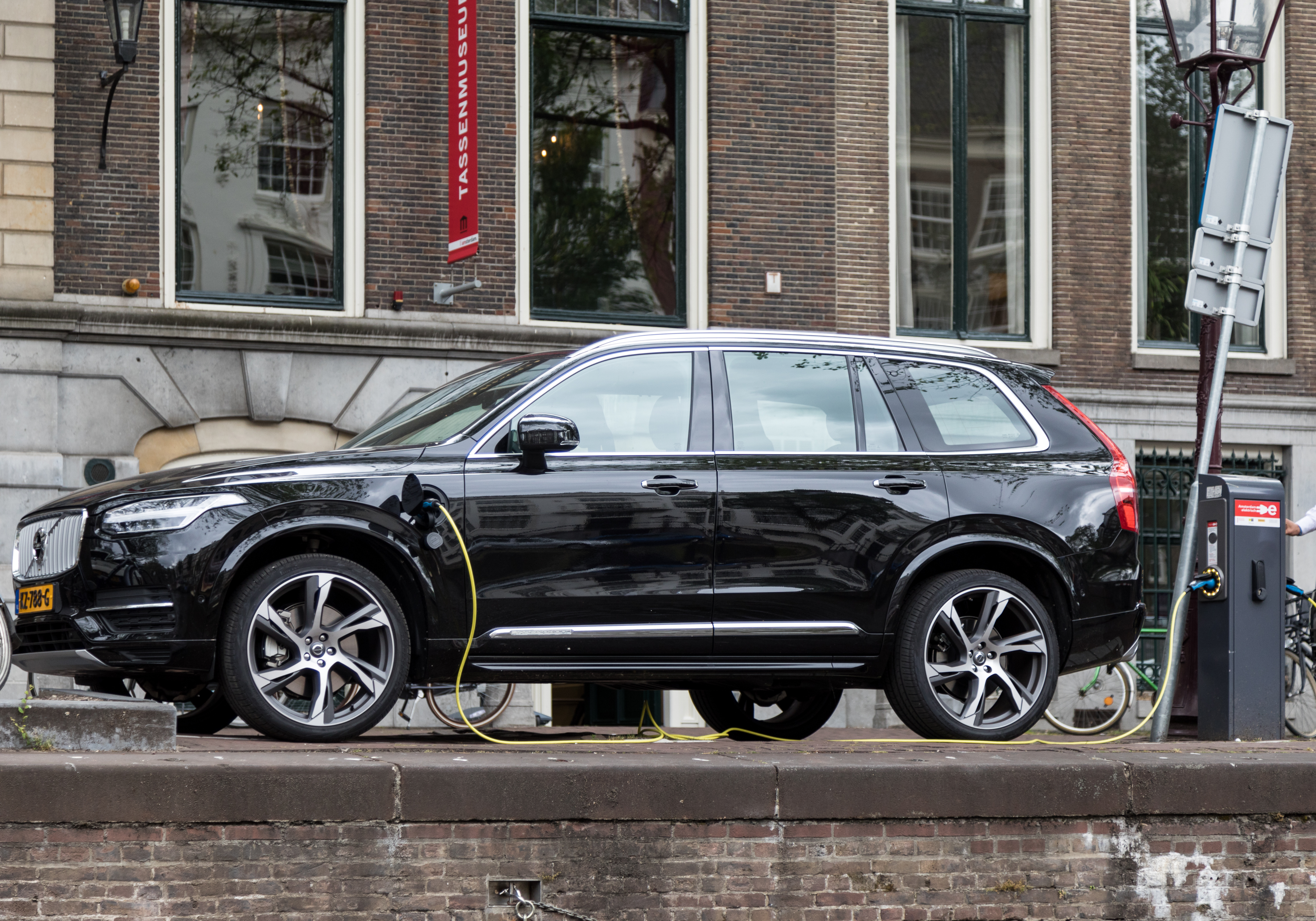 2017 Volvo XC90 T8 Twin Engine charging in Amsterdam